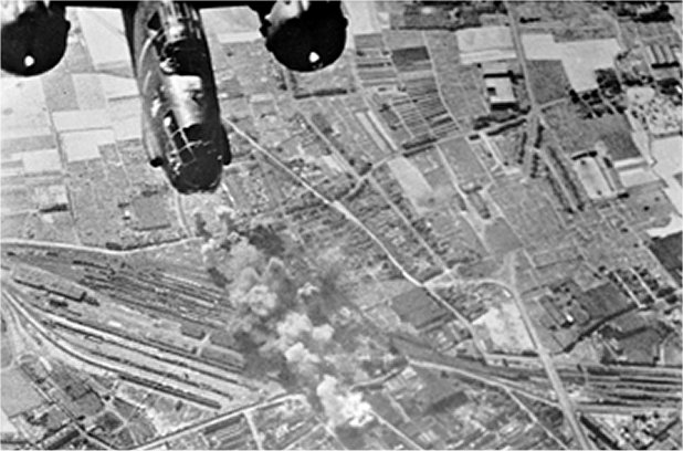 Daylight bombing raid on the railway yards at Tourcoing, France by a Douglas Boston aircraft of 2nd Tactical Air Force. Photograph taken by an RAF cameraman flying in one of the attacking Boston aircraft.